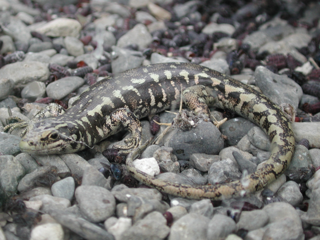 Otago skink (Oligosoma otagense) sitting on gray pebbles. Photo taken in Nga Manu Nature Reserve, New Zealand.